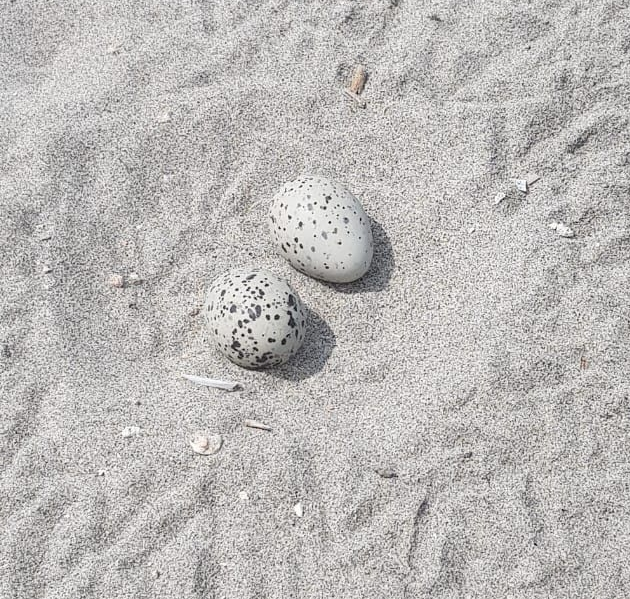 A simple nest in a sandy beach